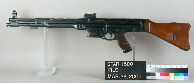 The Haenel MKb 42(H) rifle of 1942.